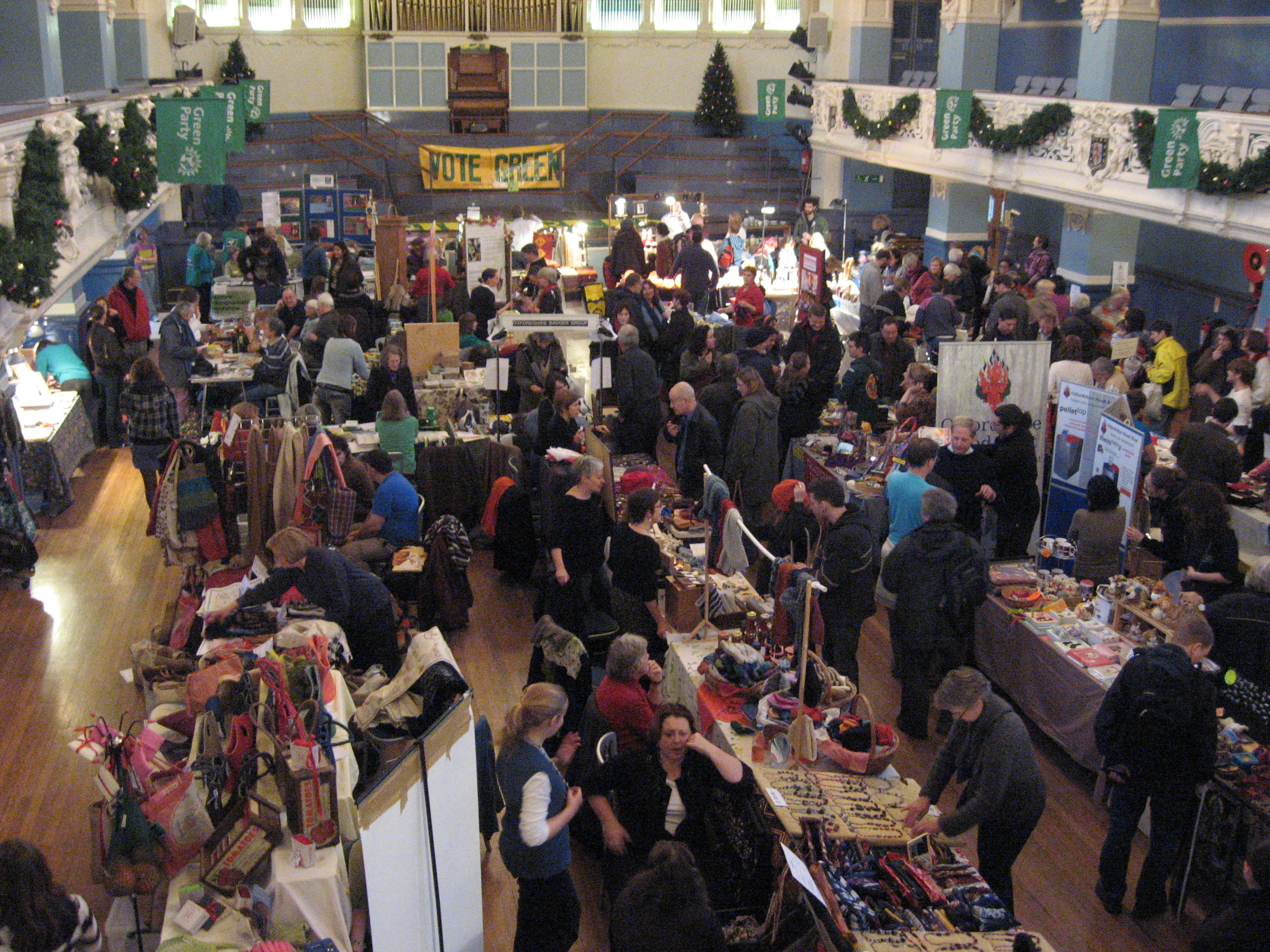 Green Fair held by Oxfordshire Green Party in the Oxford Town Hall.